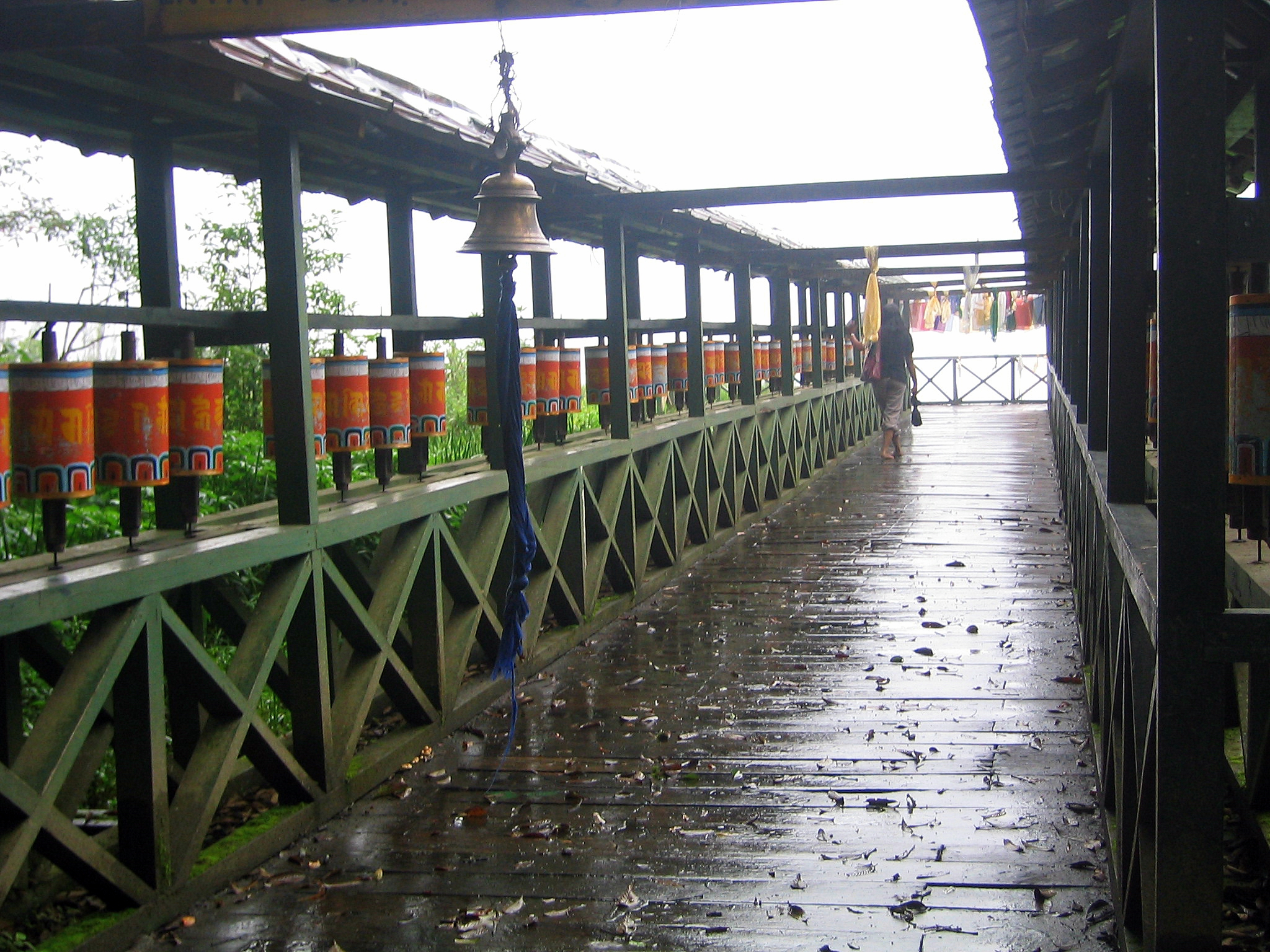 This is the boardwalk leading to Khecheopalri Lake